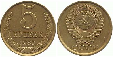 Soviet 5 kopeks (1/100 of a ruble).